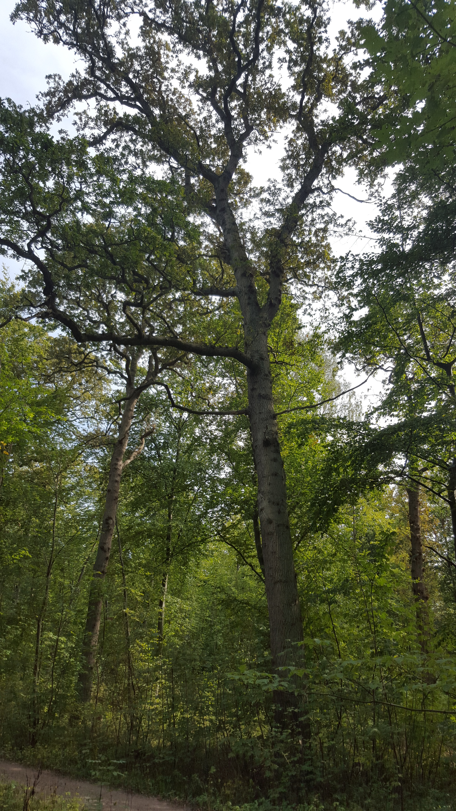 Oak tree in Kongelunden